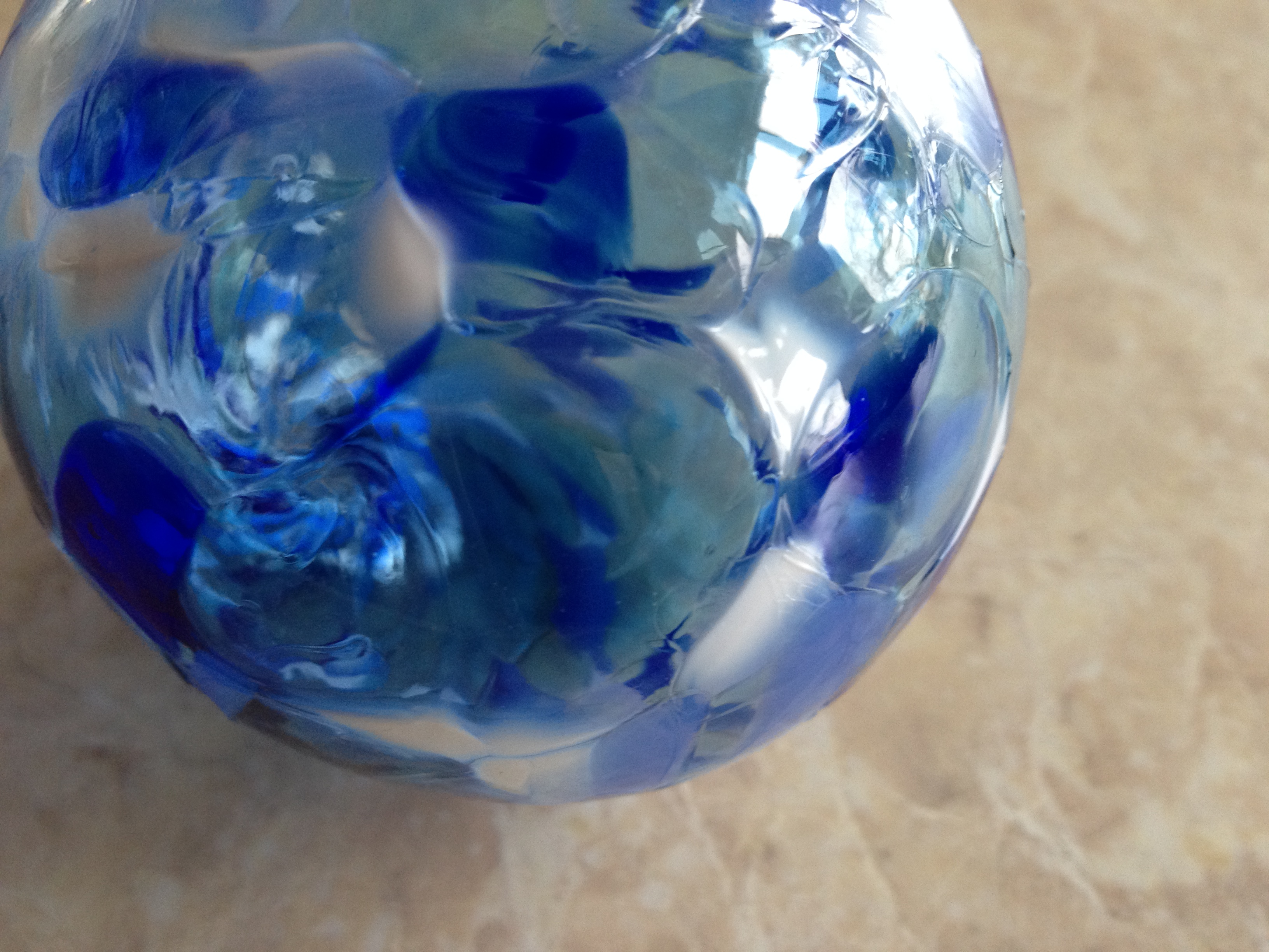 Photo of Blue Glass Ball